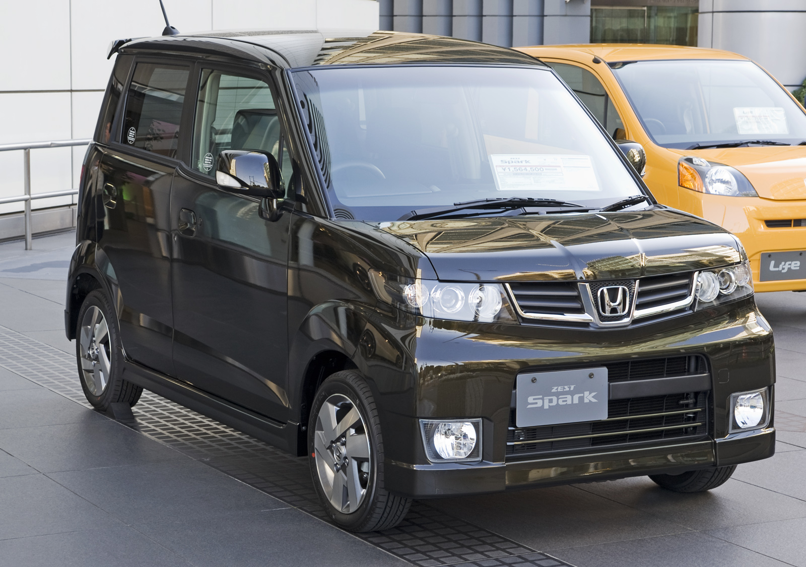 Honda Zest Spark photographed in Honda Welcome Plaza Aoyama (Minato, Tokyo)